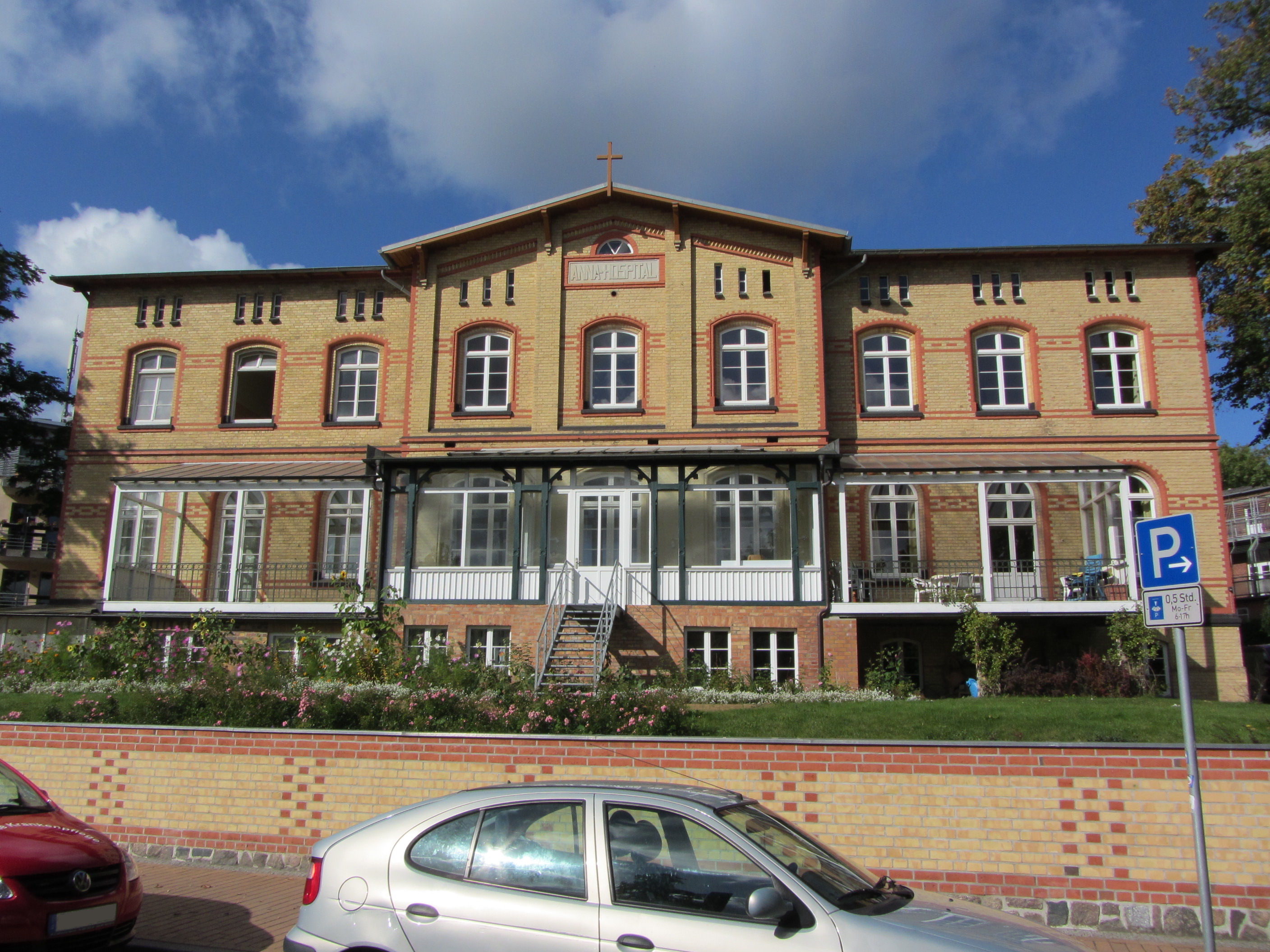 Anna-Hospital, Platz der Jugend 25 in Schwerin, Mecklenburg-Vorpommern, Germany